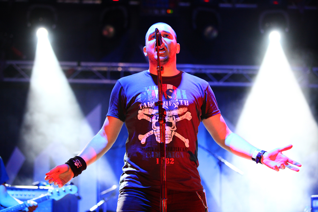 Red Union, EXIT 2012.